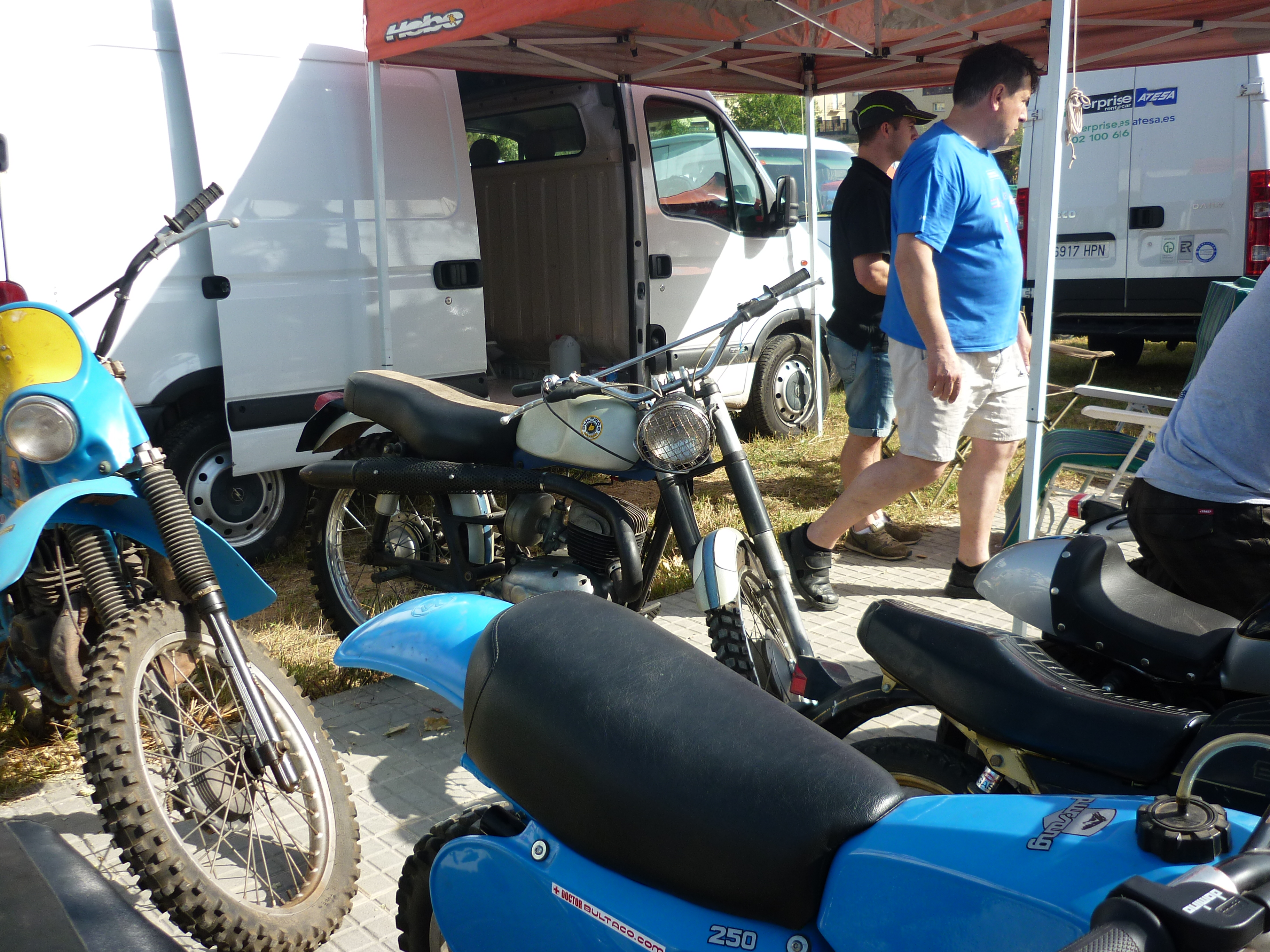 Back: Bultaco Campera 125, 1961